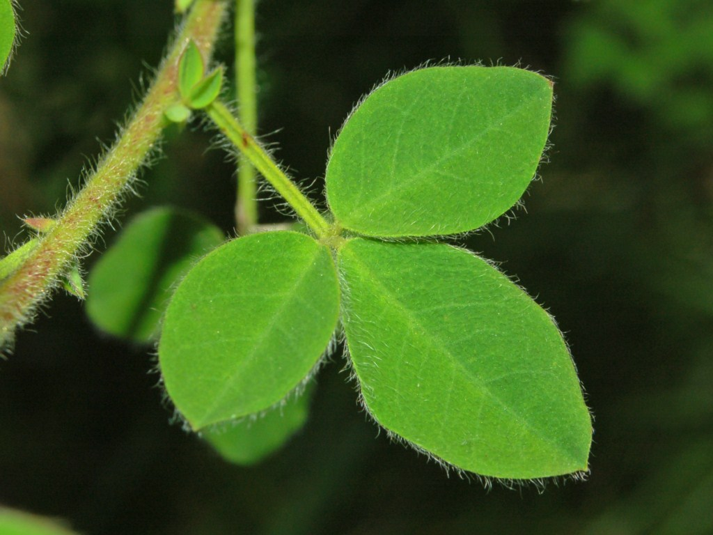 Chamaecytisus hirsutus - Genova, Italy